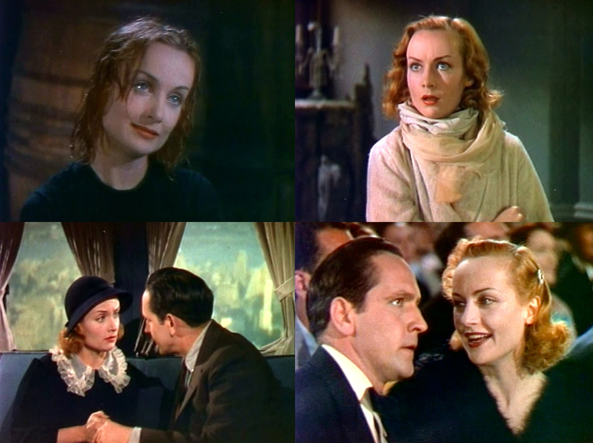 Composite of 4 screenshots of Carole Lombard (two with Fredric March) from the film Nothing Sacred.